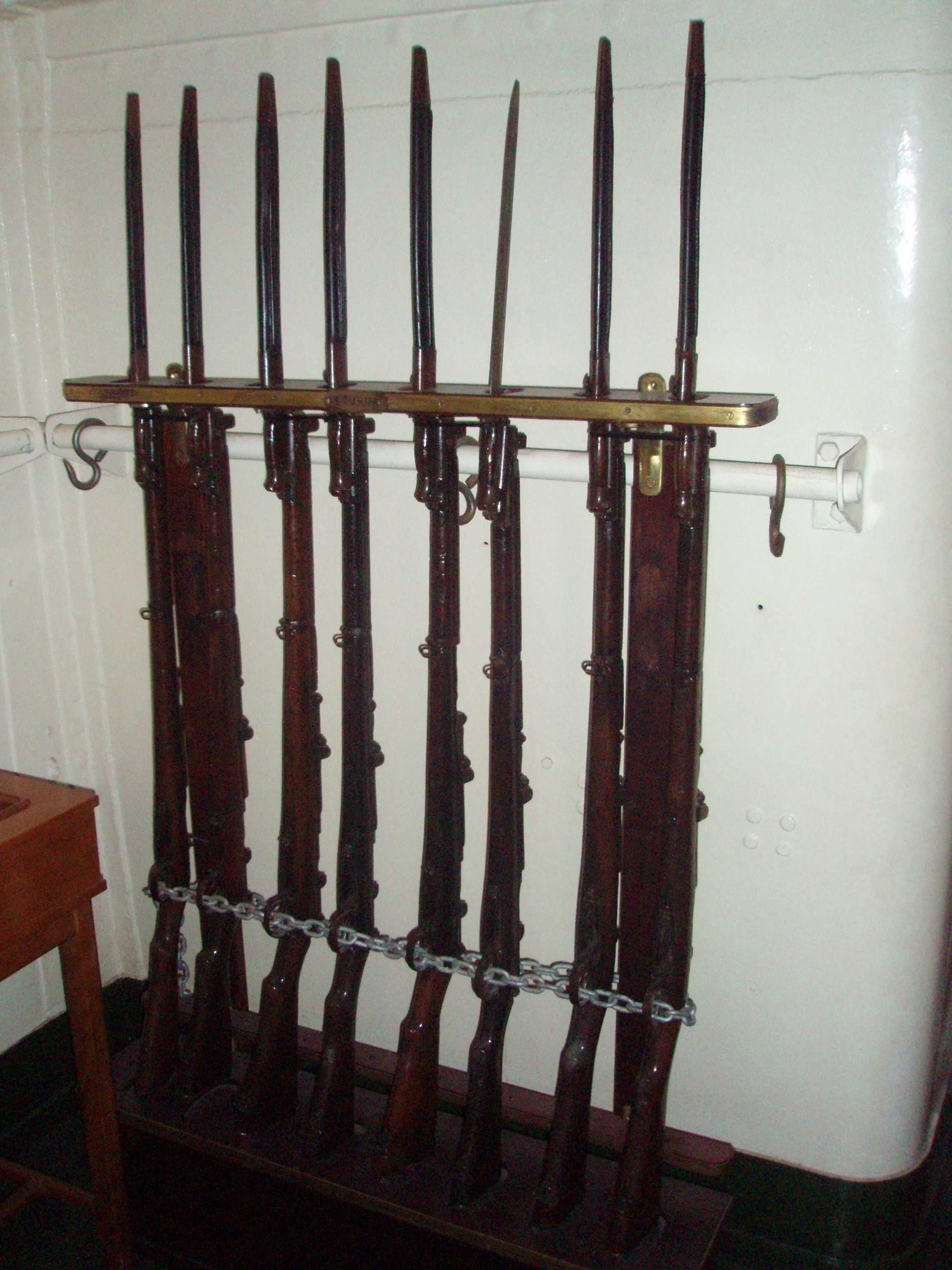 Rifles at the crew quarters of the armoured cruiser Georgios Averof at the Maritime Tradition Park in Faliron, Greece